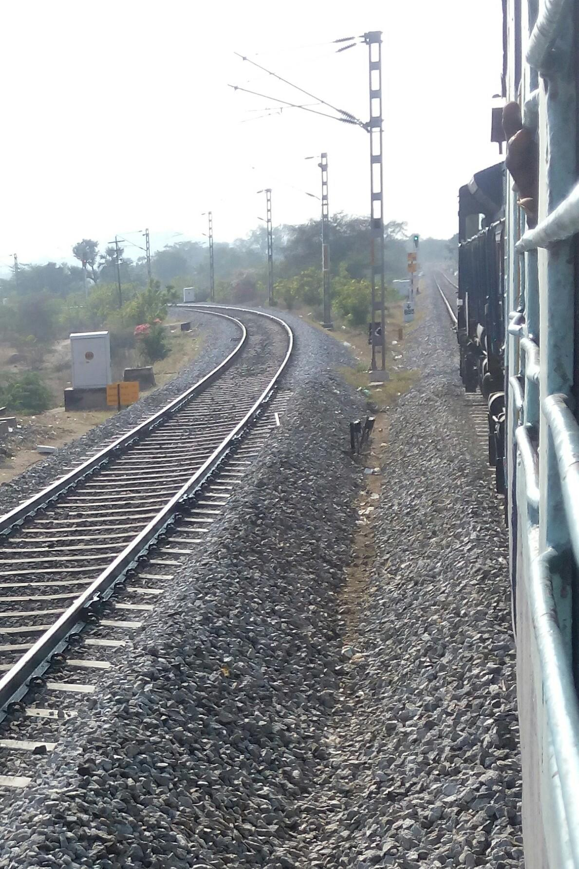 track diversion at pakala jn